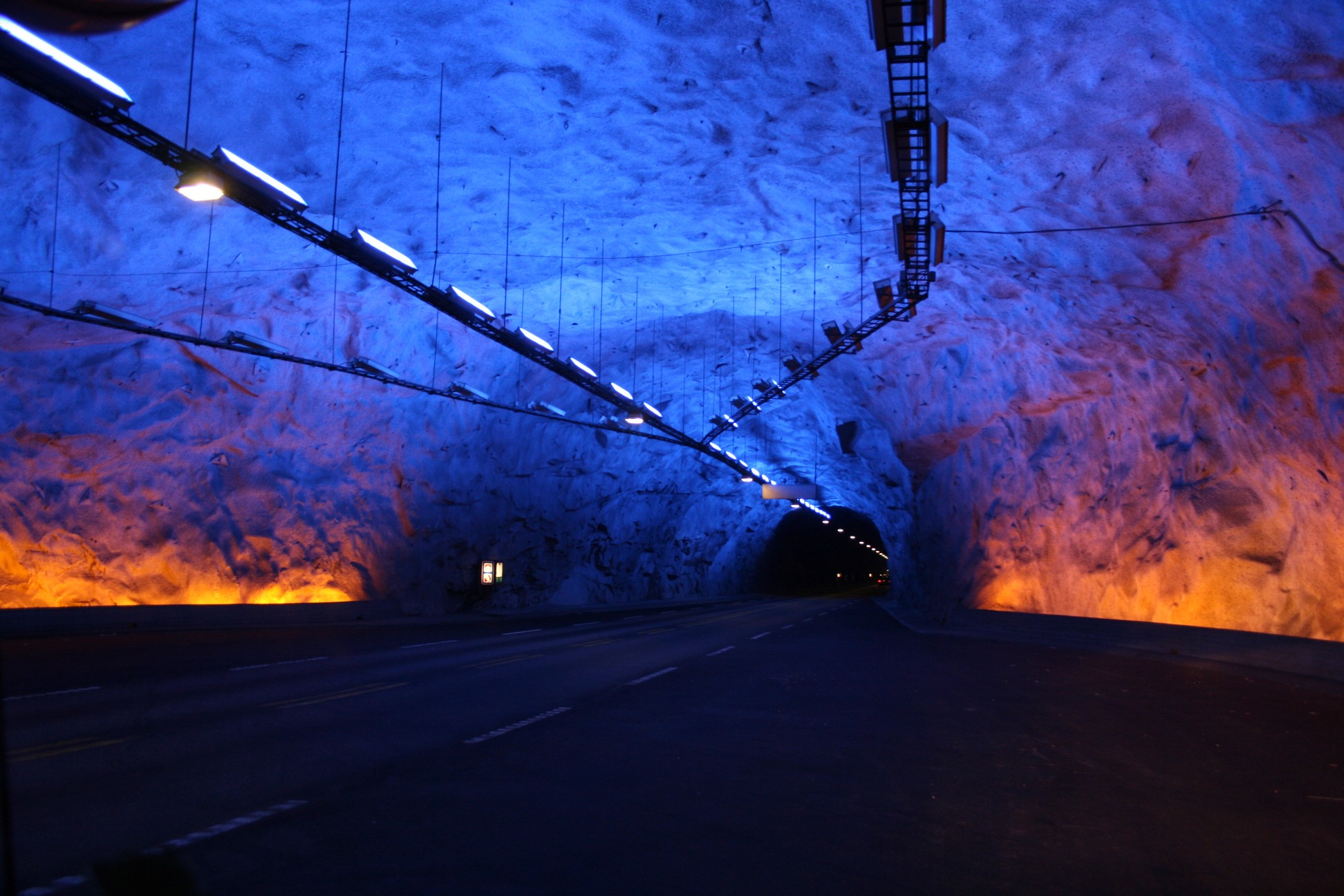 Lærdalstunnel caves have blue lighting with yellow lights